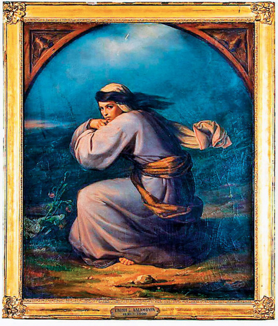 Greek painter Eleni Bukura-Altamura (1821-1900) : Despair